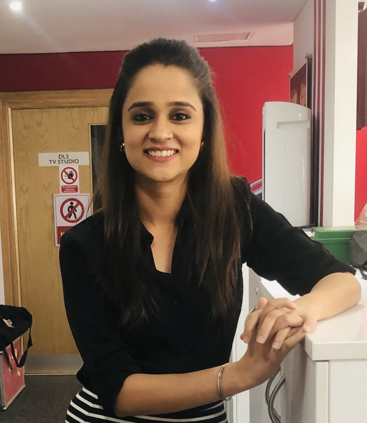 Young Journalist Sarvapriya Sangwan Photo